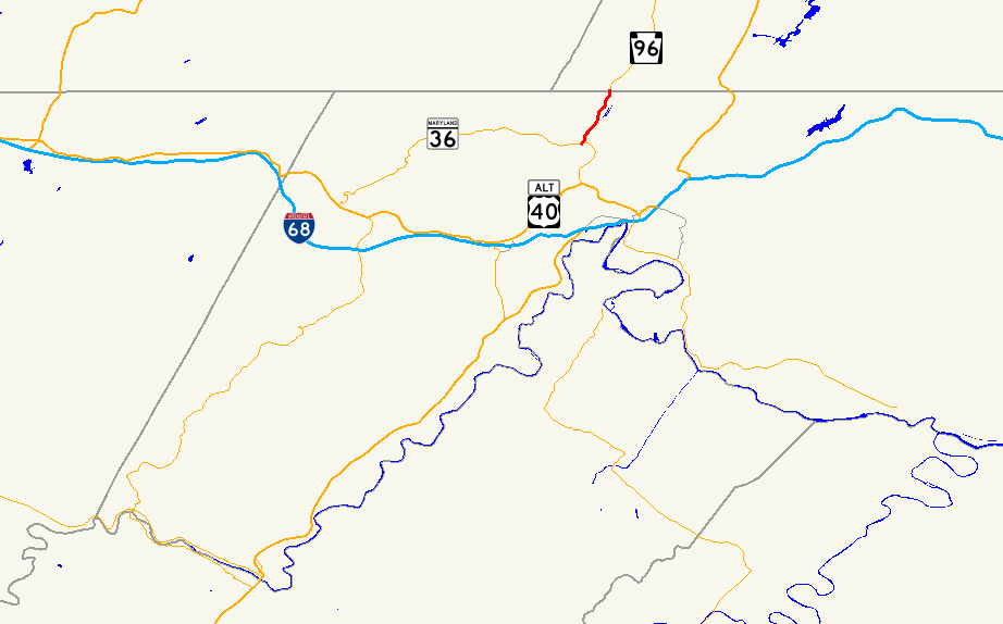 Map of MD Route 35